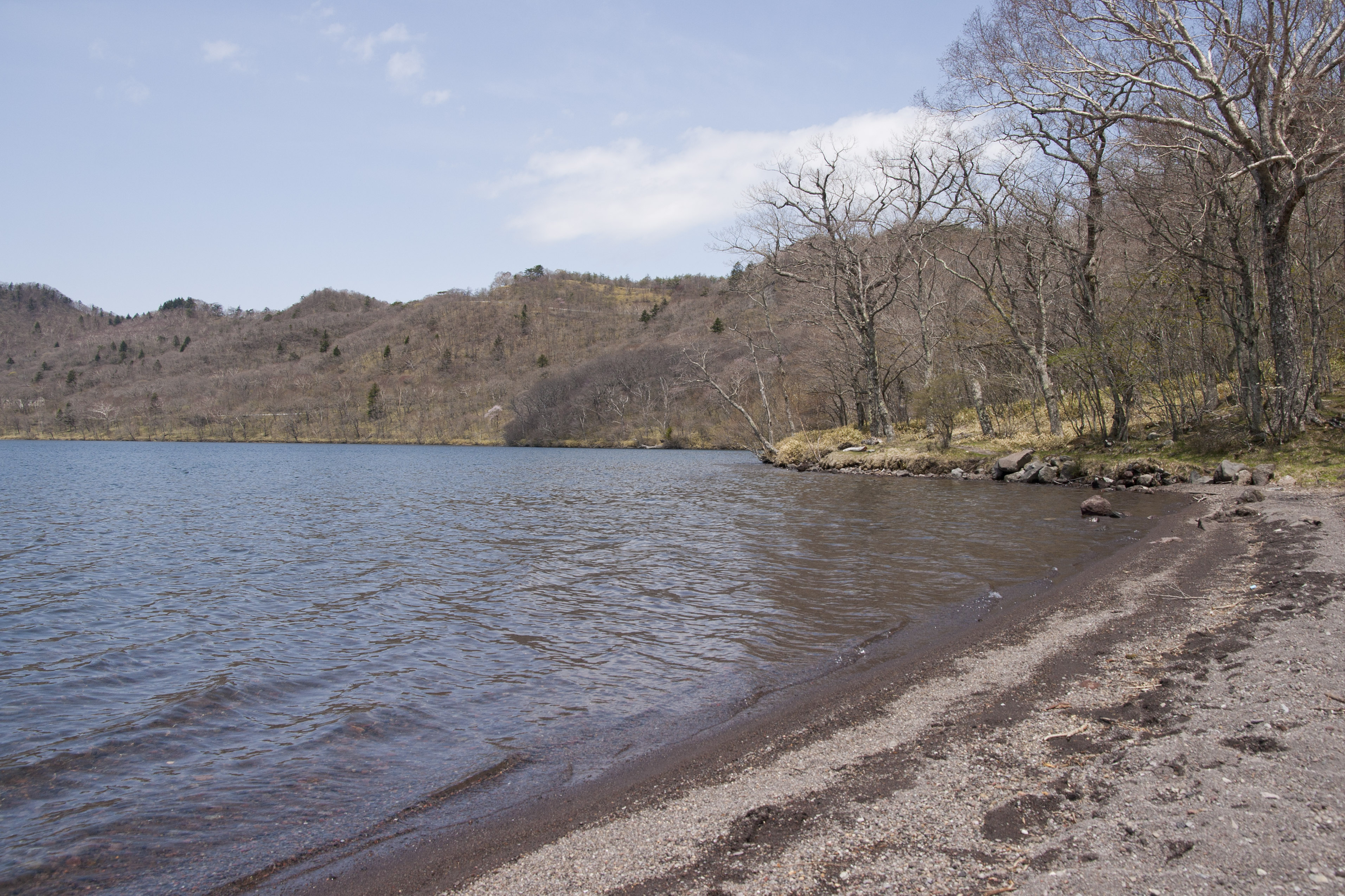 Lake Ono, Maebashi City, Gunma Prefecture, Japan